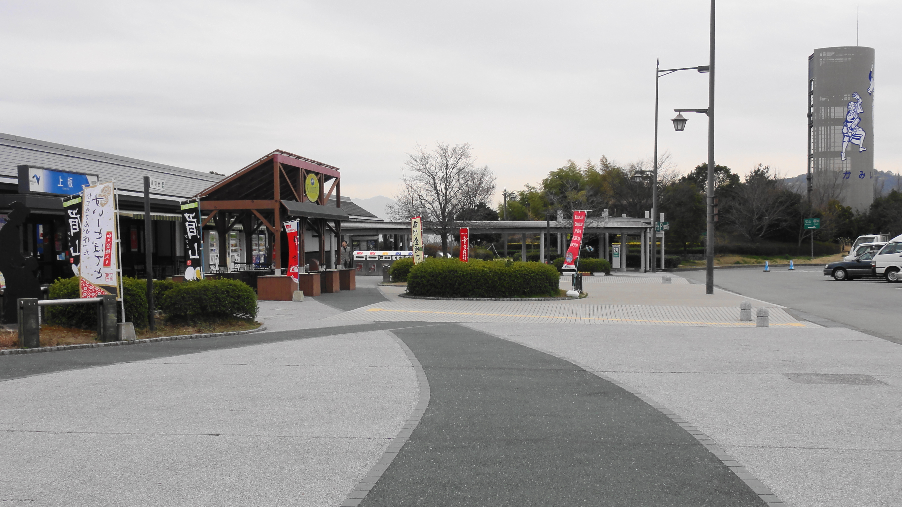 Kamiita Service Area ,Tokushima prefecture, Japan